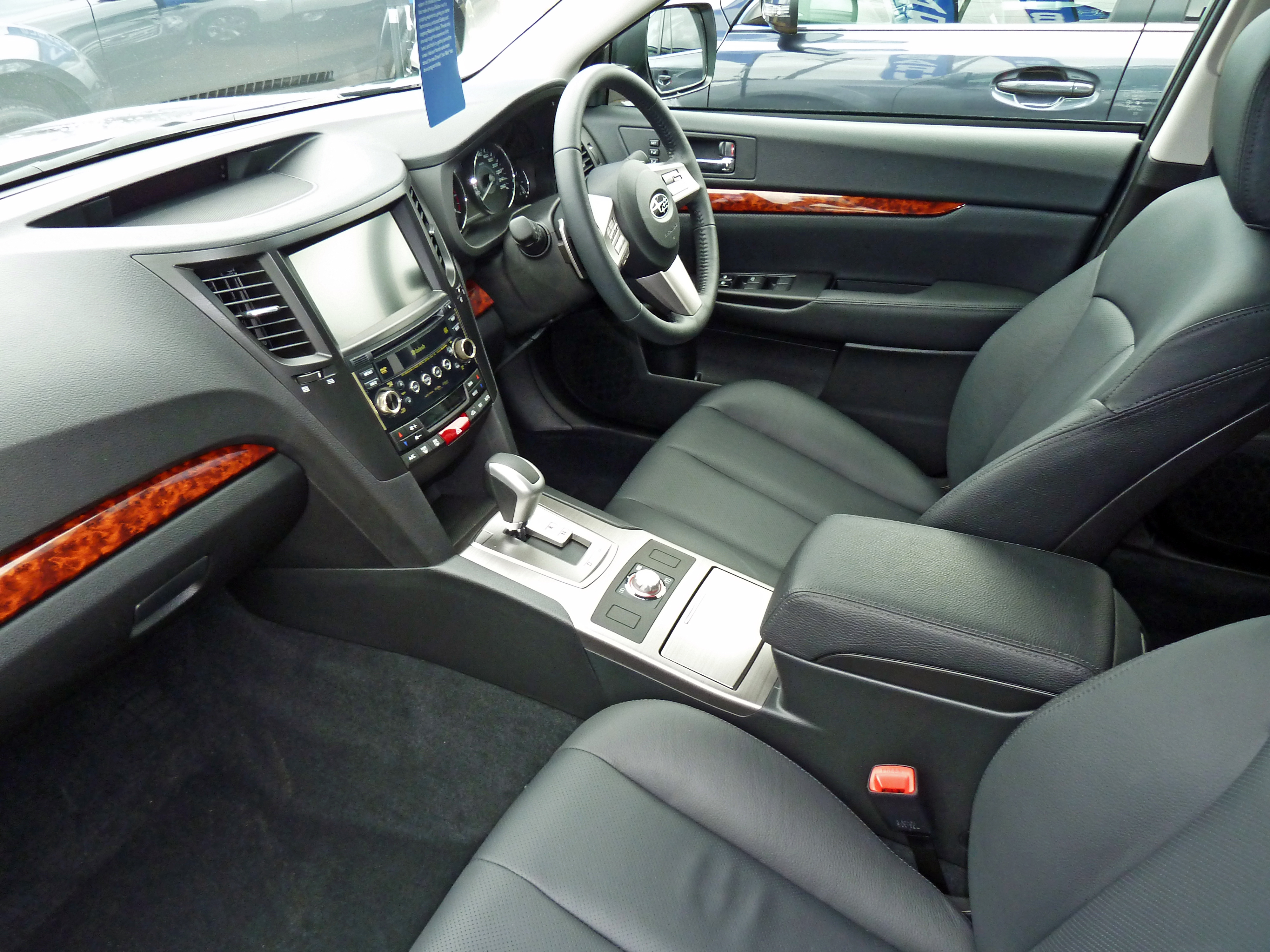 2010 Subaru Outback (BRF MY10) 3.6R Premium station wagon. Photographed at Suttons Subaru, Chullora, New South Wales, Australia.